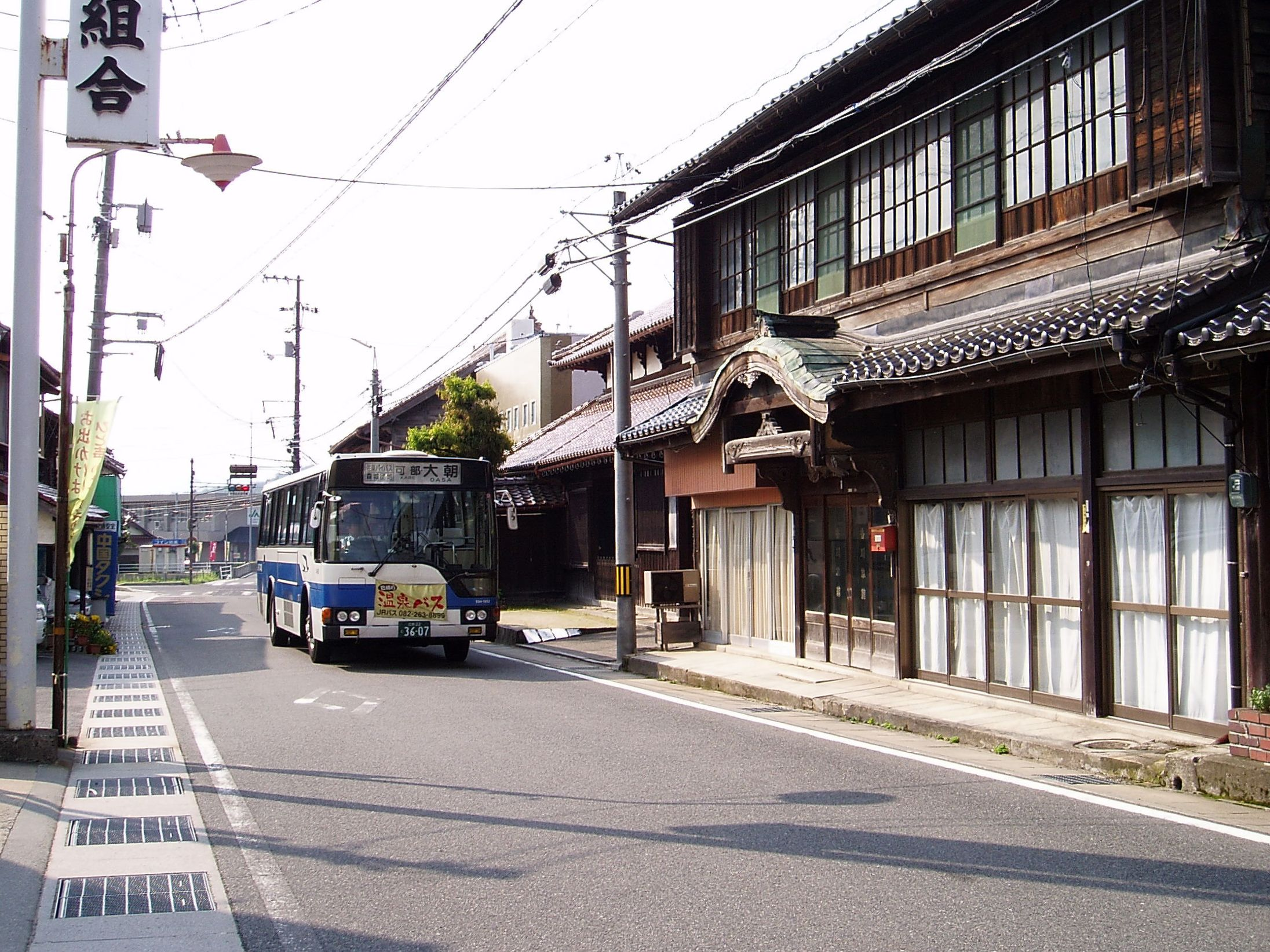 Chugoku JR Bus 534-1962 Kohin Line Mitsubishi U-MP618M(kai) at Kitahiroshima Town